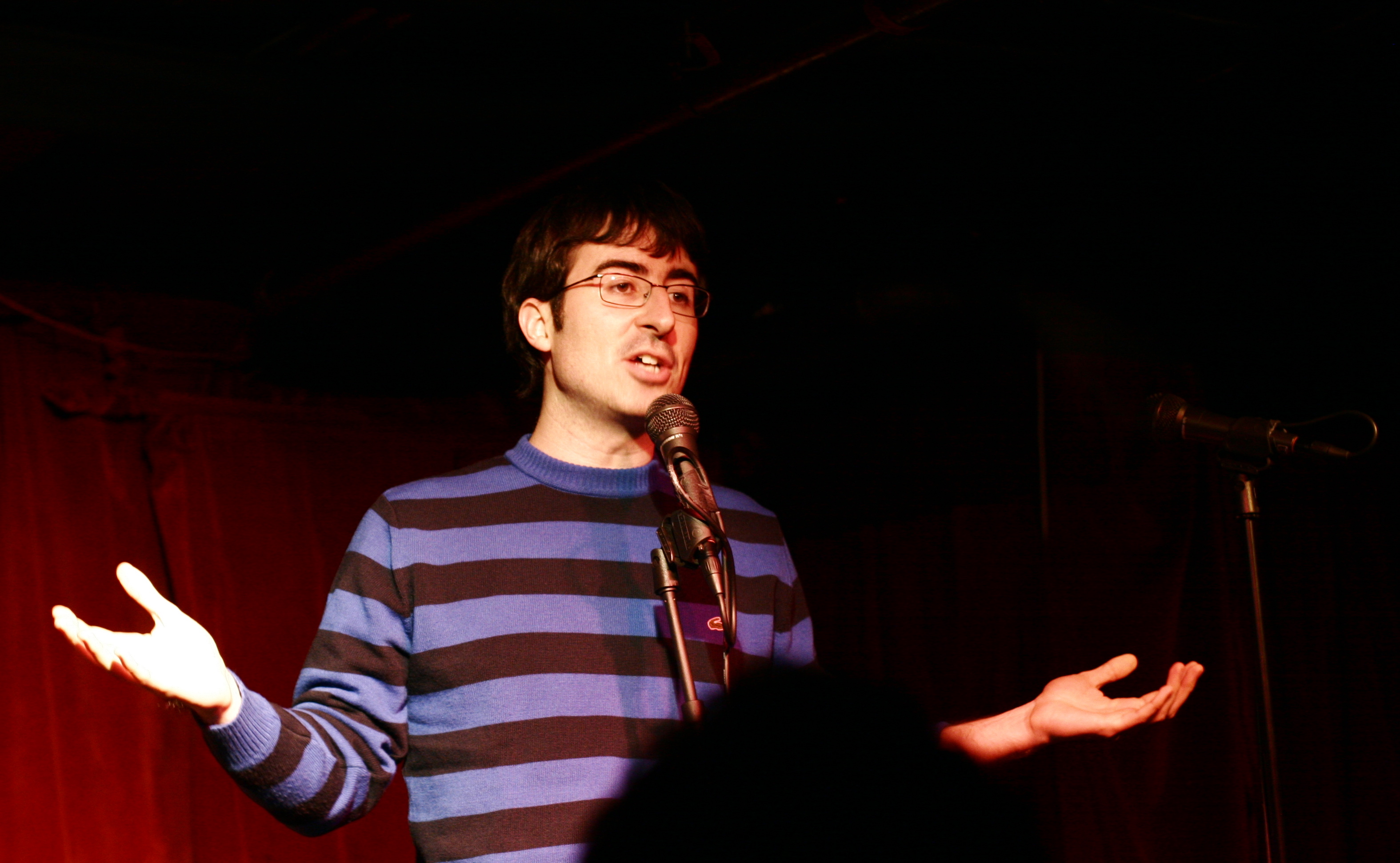 John Oliver in 2007